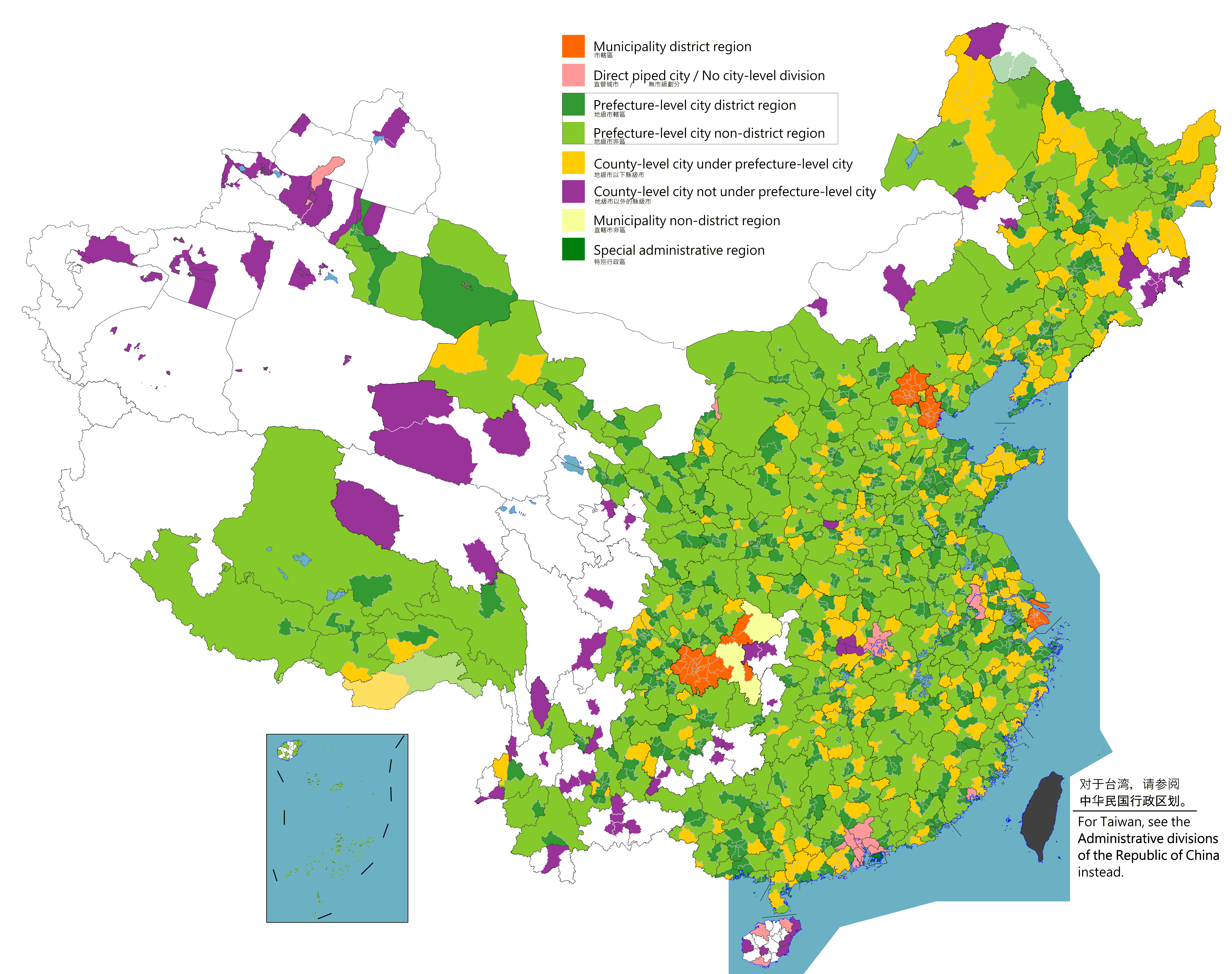 Map of China's cities Municipality Special administrative region Prefecture-level city County-level city subordinate to a Prefecture-level city County-level city